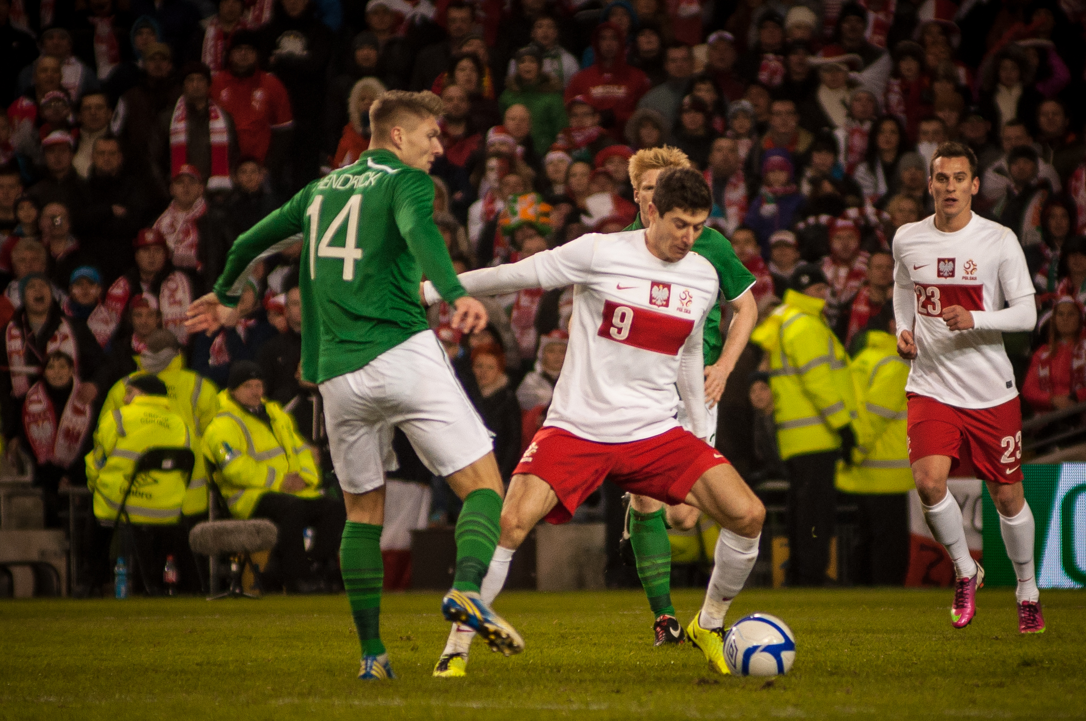 Ireland vs Poland, Aviva Stadium 06.02.2013